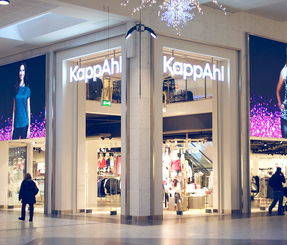 KappAhl in Nordstan, Gothenburg, Sweden